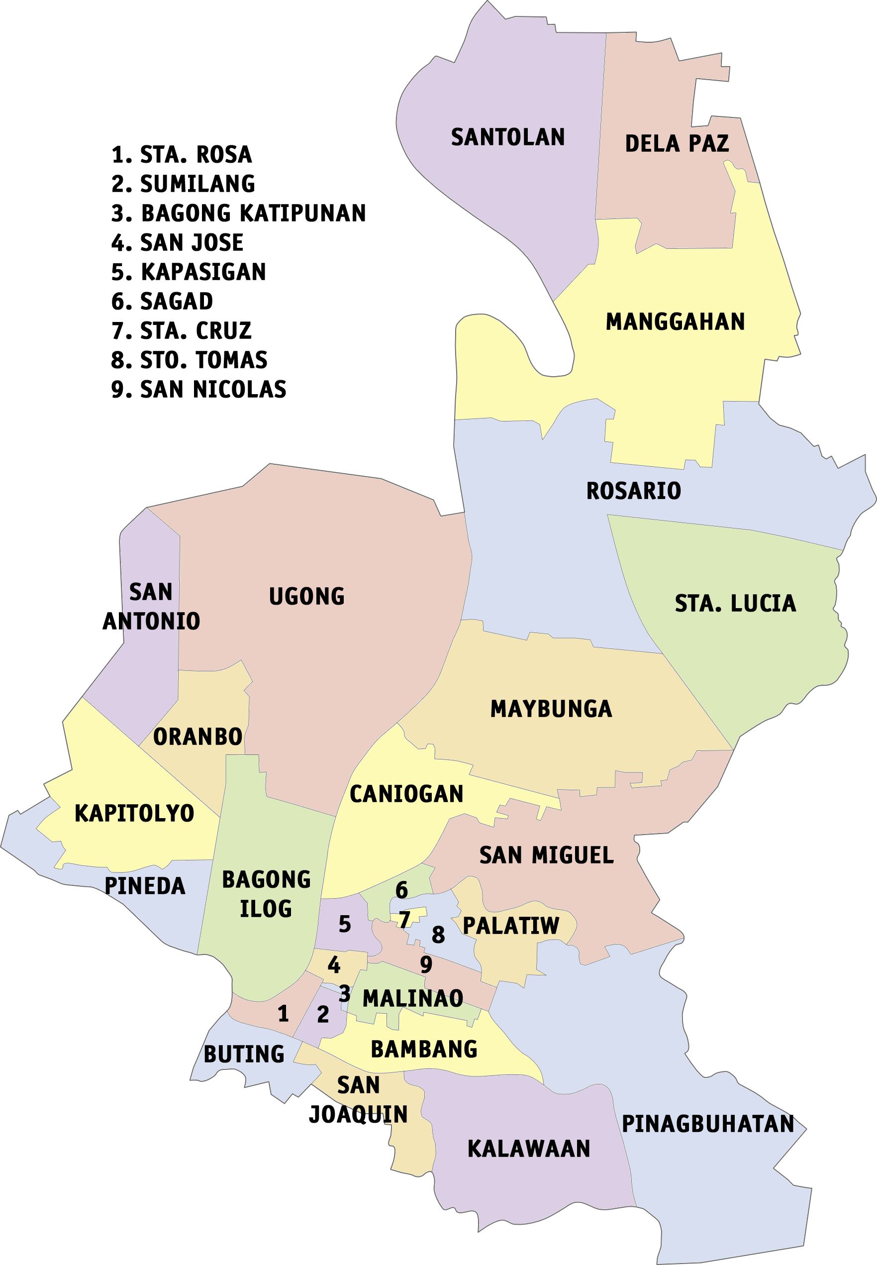 Political map of Pasig, Philippines